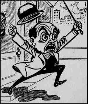 Early 20th century monochrome humorous drawing, from the comic strip "Mr. E. Z. Mark" by F. M. Howarth